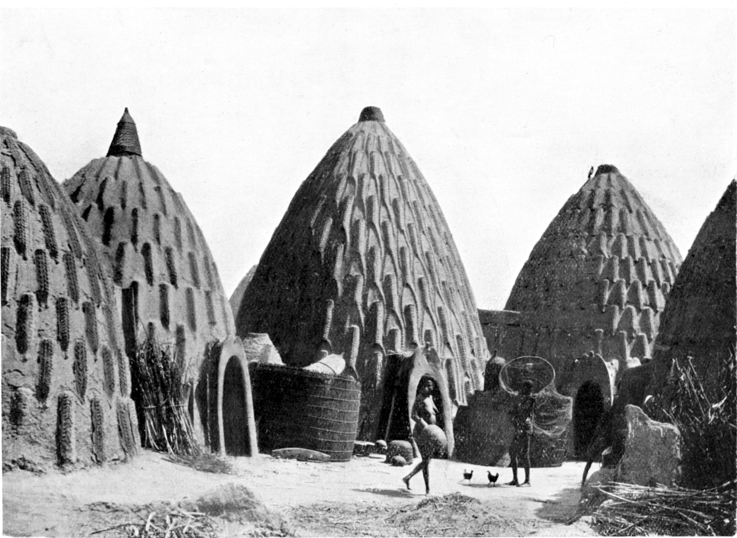 Banana Houses, Musgum. These conical houses are used by the Banana tribe of Musgum (French Central Africa), They are about thirty feet high, and are protected by the rough ribbing on the exterior, which also serves as a ladder.